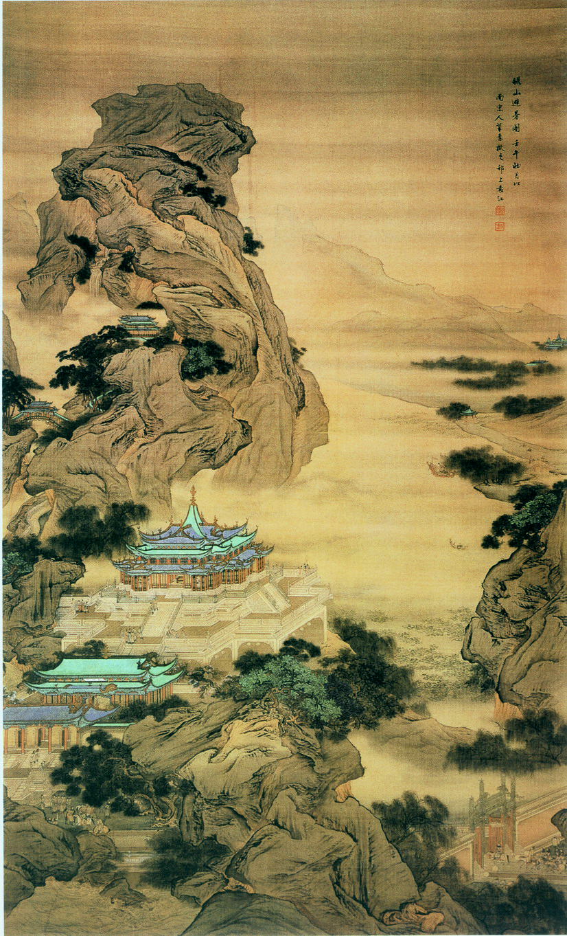 Mount Li Escaping the Heat, hanging scroll, color on silk, 216.7 x 42.4 cm. Located at the Capital Museum in Beijing. Mount Li is located near the city of Xian in central China.